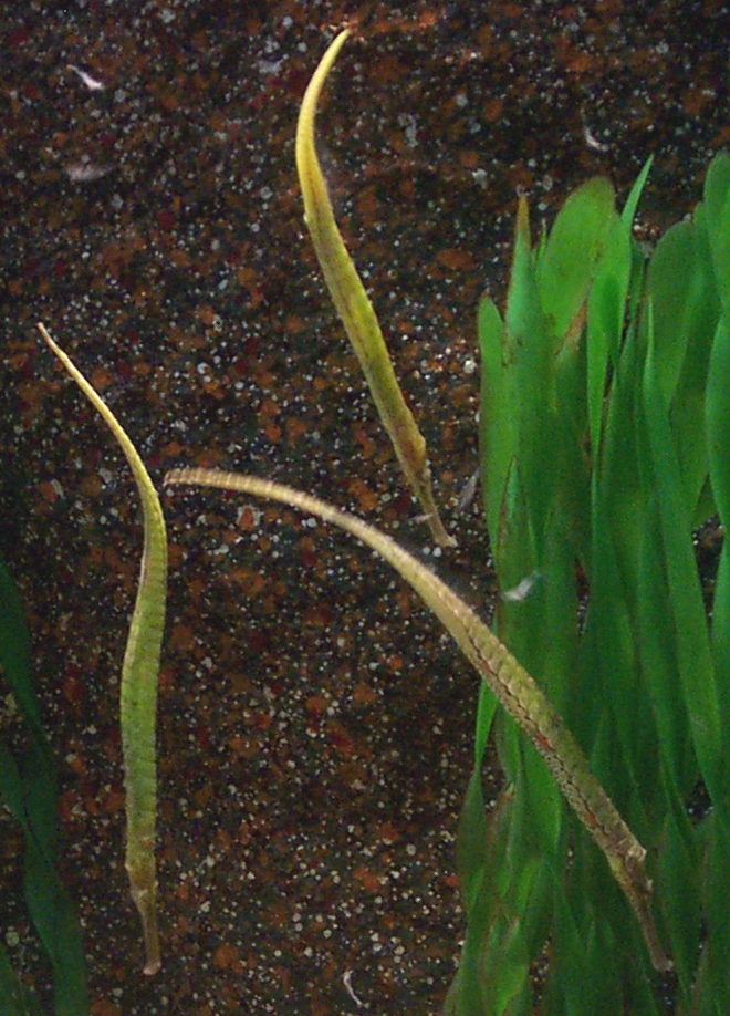 Pipefishes, photographed at Siam Ocean World aquarium, Bangkok (Syngnathoides biaculeatus)